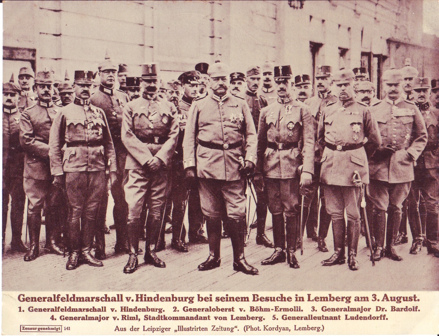 "Field Marshal v. Hindenburg on his visit to Lviv on 3 August 19. Ludendorff wrote: "I was surprised by the beauty of Lviv and its German appearance." Kriegserinnerungen 1919 p. 181. Max Hoffmann wrote in his diary 04/08/1916: "This morning at 3 o'clock we came home from the trip back to Kovel and Lemberg. It does not look so nice to our honourable allies. We will have solid spit in the finger, but I do not doubt that it will go. Otherwise our receptions went royally with a guard of honour and all sorts prades, banquets, etc.